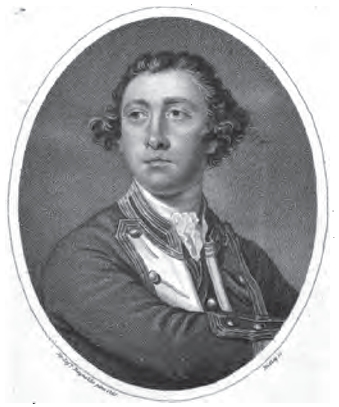 A lithograph of John Lockhart Ross [1721-1790]. Admiral in the Royal Navy, Member of British Parliament.